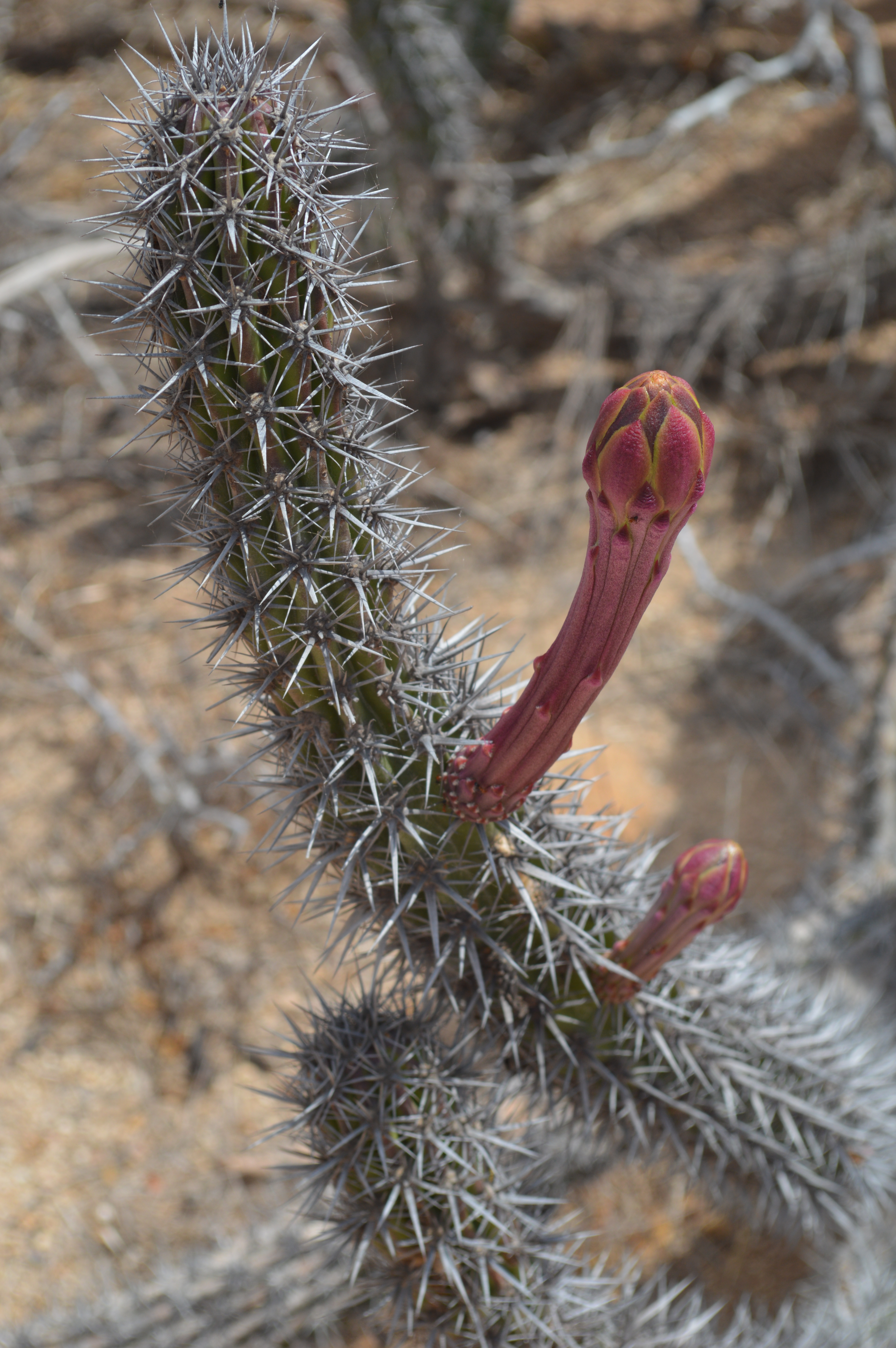 Flowering cactus at Rancho Punta San Cristobal, Los Cabos, Baja California Sur